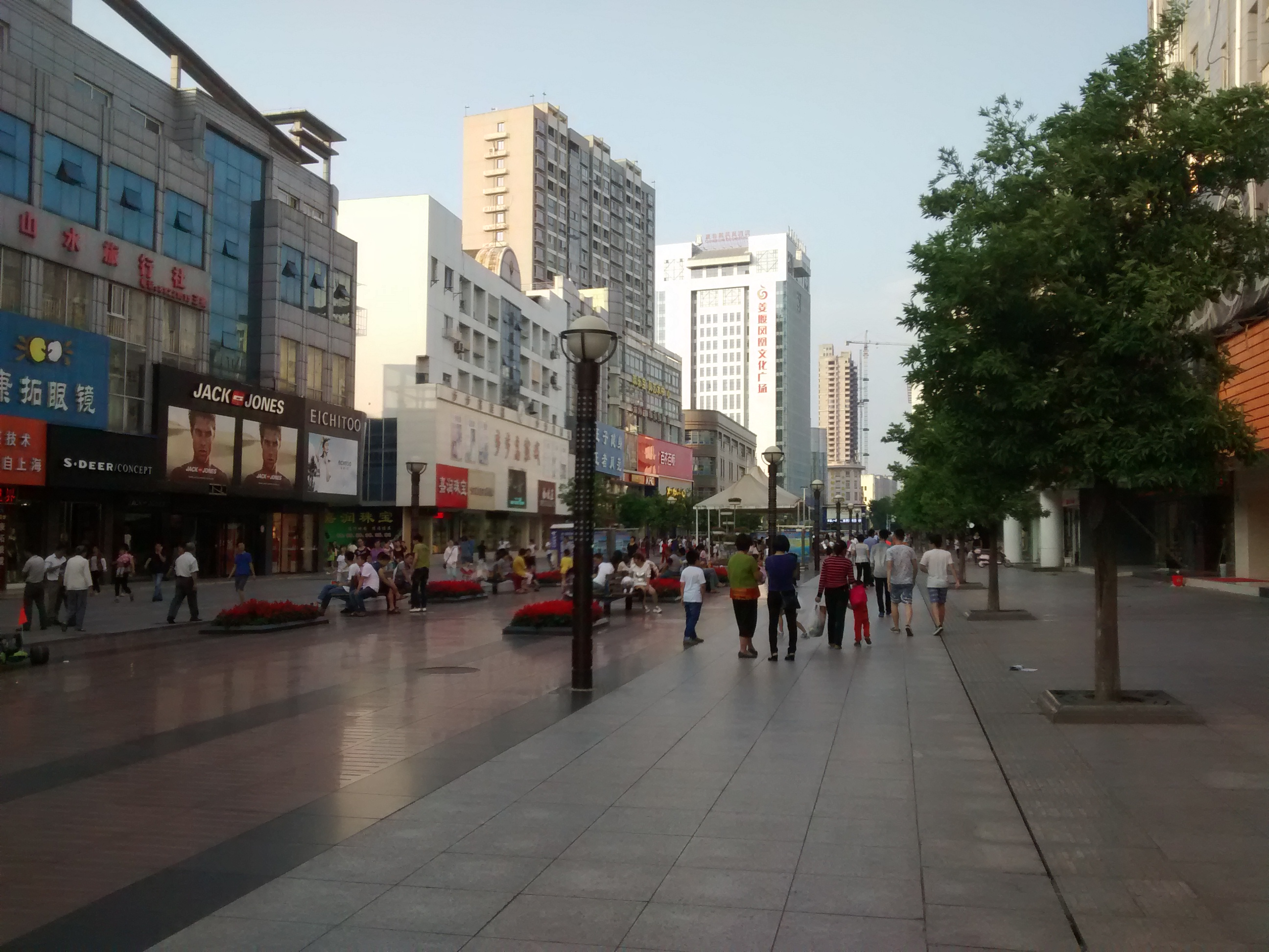 Walking street in Jiangyan, Taizhou, Jiangsu, China.